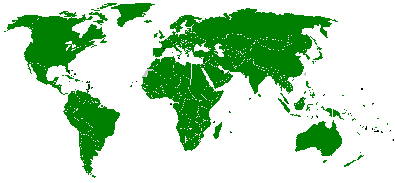 Member states of the International Telecommunication Union